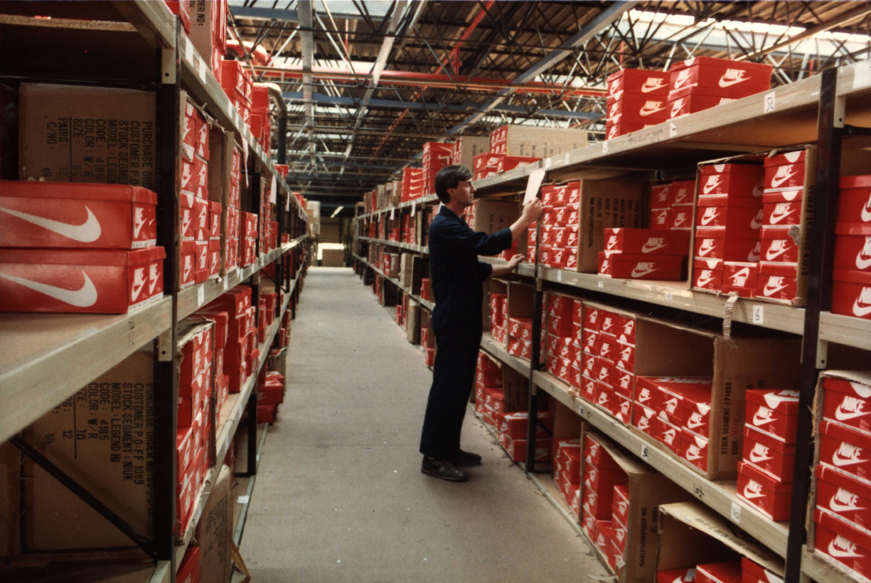 This is a photograph documenting the opening of Nike in Washington, UK. The photograph was taken at some point in the 1970's or early 1980's. Reference: 5417/335/2 This collection of images has been assembled in support of the Washington Heritage Festival 2013. The celebration of Washington brings together a variety of different themes. Washington is a Town in the City of Sunderland, Tyne & Wear. It is traditionally associated with Coal Industry, and notably known as the home of the Washington Family, ancestors of the First President of the United States George Washington. However, in 1964 Washington was designated a New Town and drastically changed. With the introduction of new industry such as the Nissan Car Factory Washington experienced a huge redevelopment in both its economy and community. These Photographs are taken from the Records of the Washington Development Corporation; held at Tyne & Wear Archives. The records document this change in industry, landscape and community in Washington between 1964 & 1988, and consist of many photographs. For more information on the Washington Heritage Festival, 21st September 2013 please click (Copyright) These images are Crown Copyright. We're happy for you to share these digital images within the spirit of The Commons. Please cite 'Tyne & Wear Archives & Museums' when reusing. Certain restrictions on high quality reproductions and commercial use of the original physical version apply though; if you're unsure please